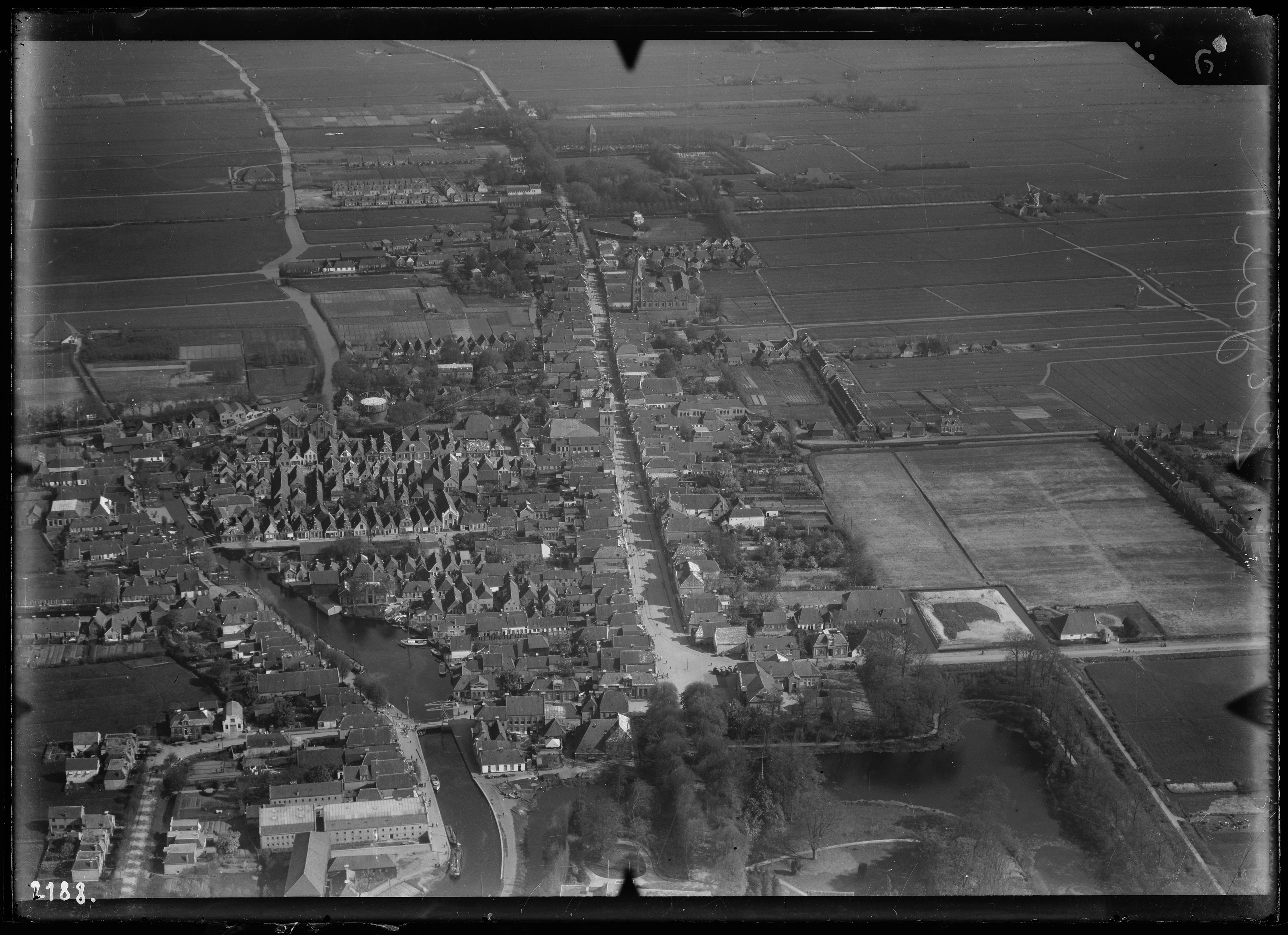 Aerial photograph of Joure, The Netherlands